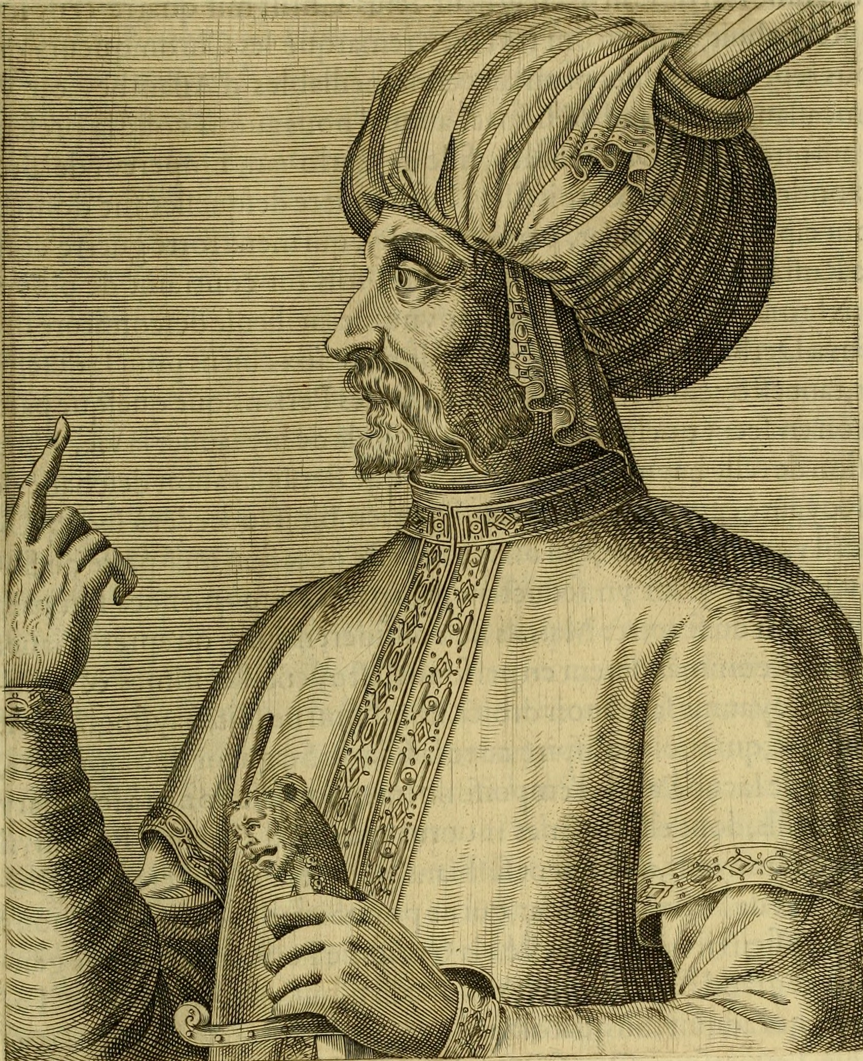 Ismail I, from tome 3, folio 657 recto of Les vrais pourtraits et vies des hommes illustres grecz, latins et payens (1584) by André Thevet.